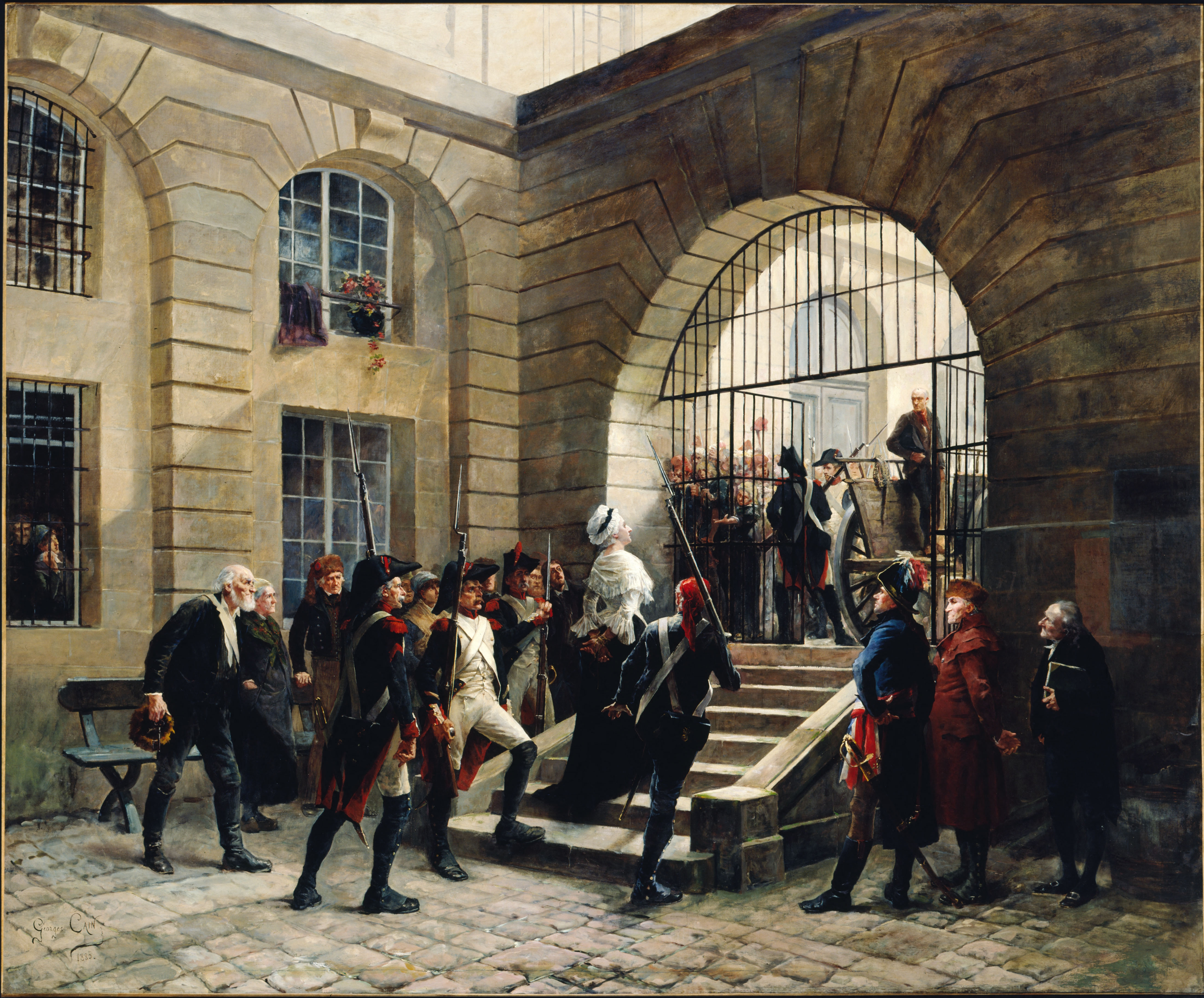 Table presented at the Salon of the Society of French Artists of 1885 (n ° 441). Georges Cain was curator of the Carnavalet Museum from 1897 to 1919.